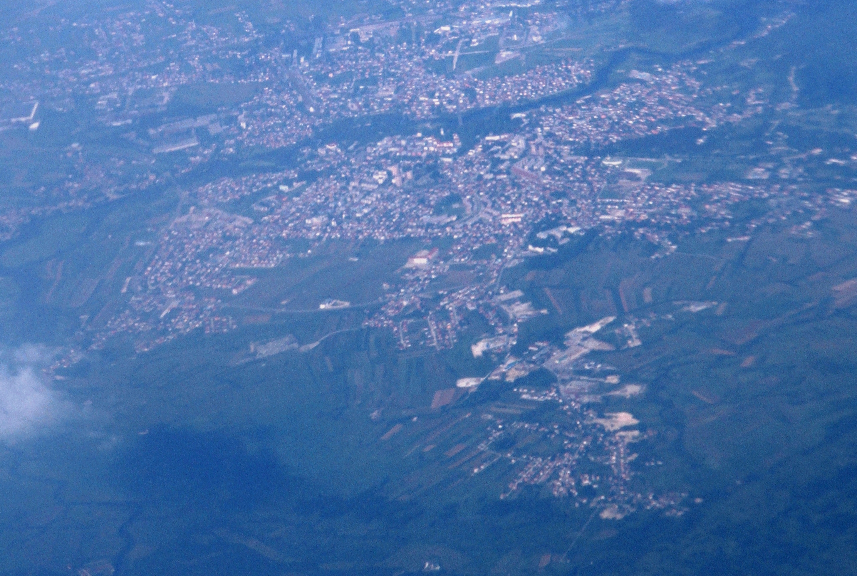 Aerial view of the city of Bihac, western Bosnia-Hercegovina, seen from the west towards the east.